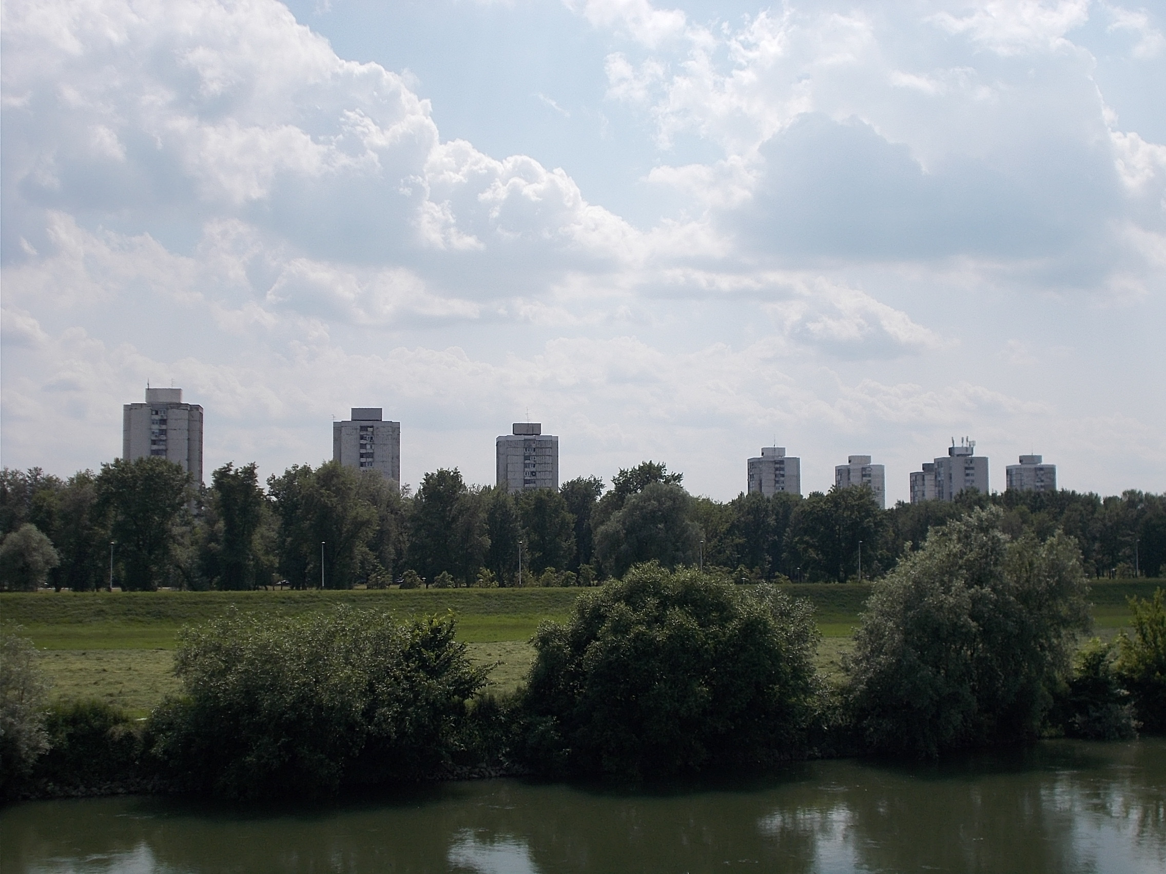 Residental buildings in Zapruđe, Novi Zagreb.